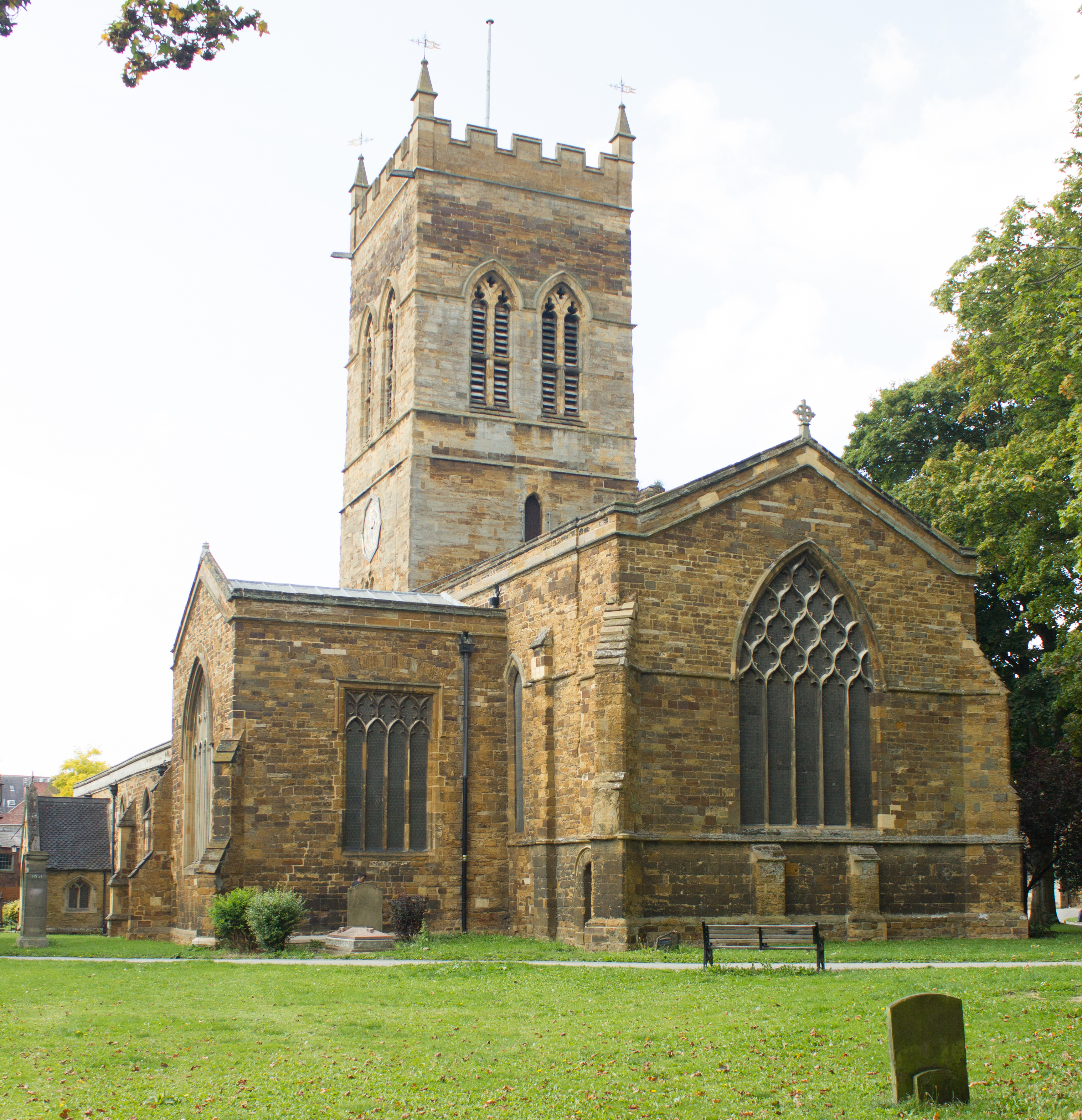 St Giles' parish church, St Giles' Terrace, Northampton, England, seen from the east